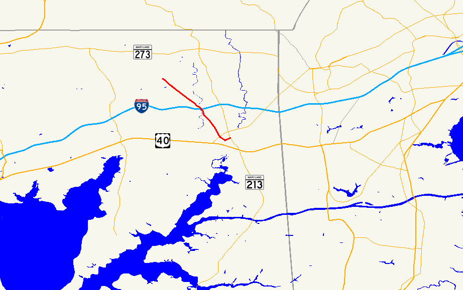 Map of Maryland Route 545